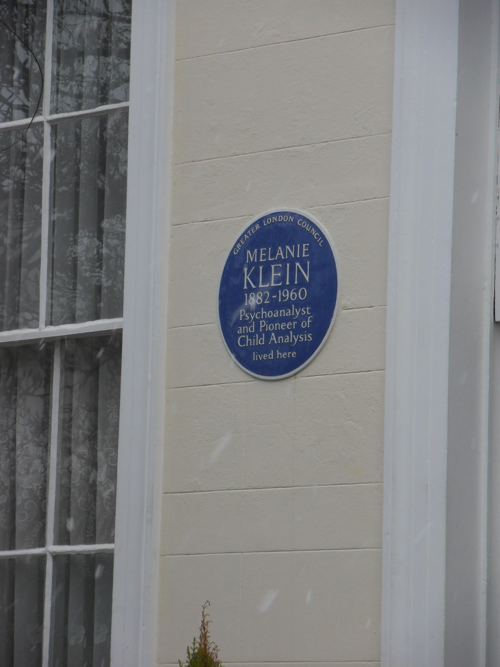 Blue Plaque at home of Melanie Klein in London; Clifton Hill, Westminster